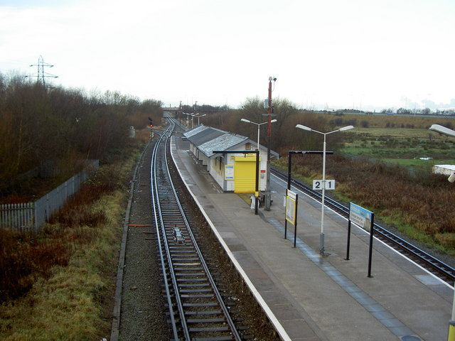 Bidston railway station Original description: Bidston Railway Station, Christmas Day 2007. Bidston is on the West Kirby branch of the Wirral lines and has trains every 15 minutes in each direction to Liverpool and West Kirby. Bidston is also the northern terminus of the Borderlands Line to Wrexham.